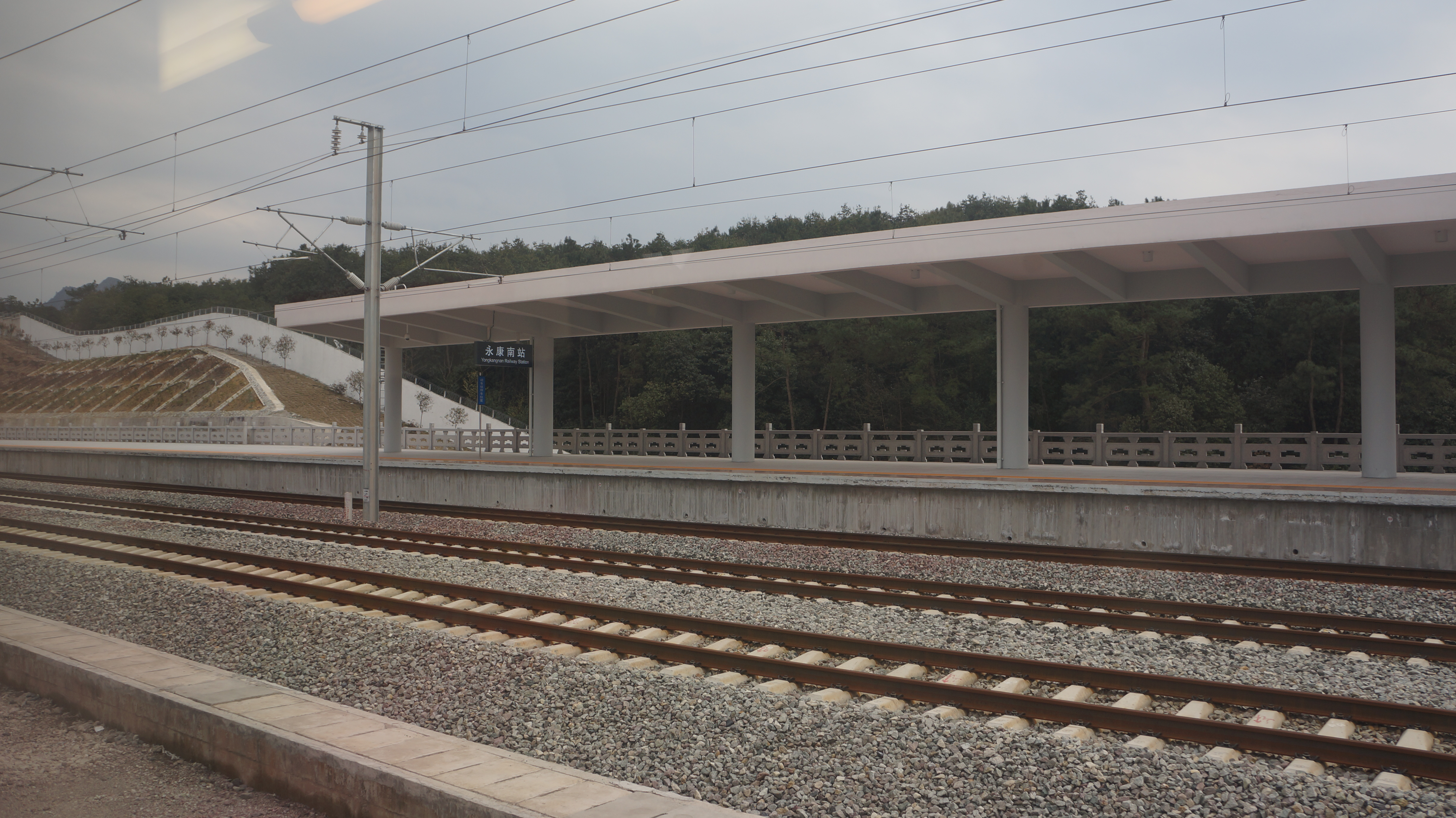 201603 Tracks on Yongkangnan Station, with non-built Jinhua-Taizhou Railway